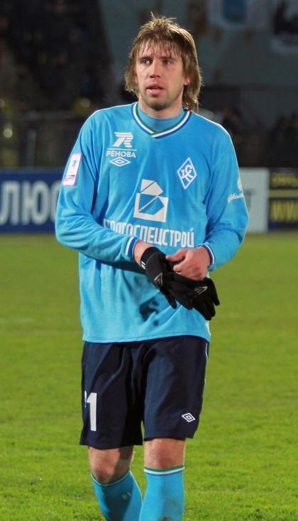 Dmitry Verkhovtsov with FC Krylia Sovetov Samara in 2012.